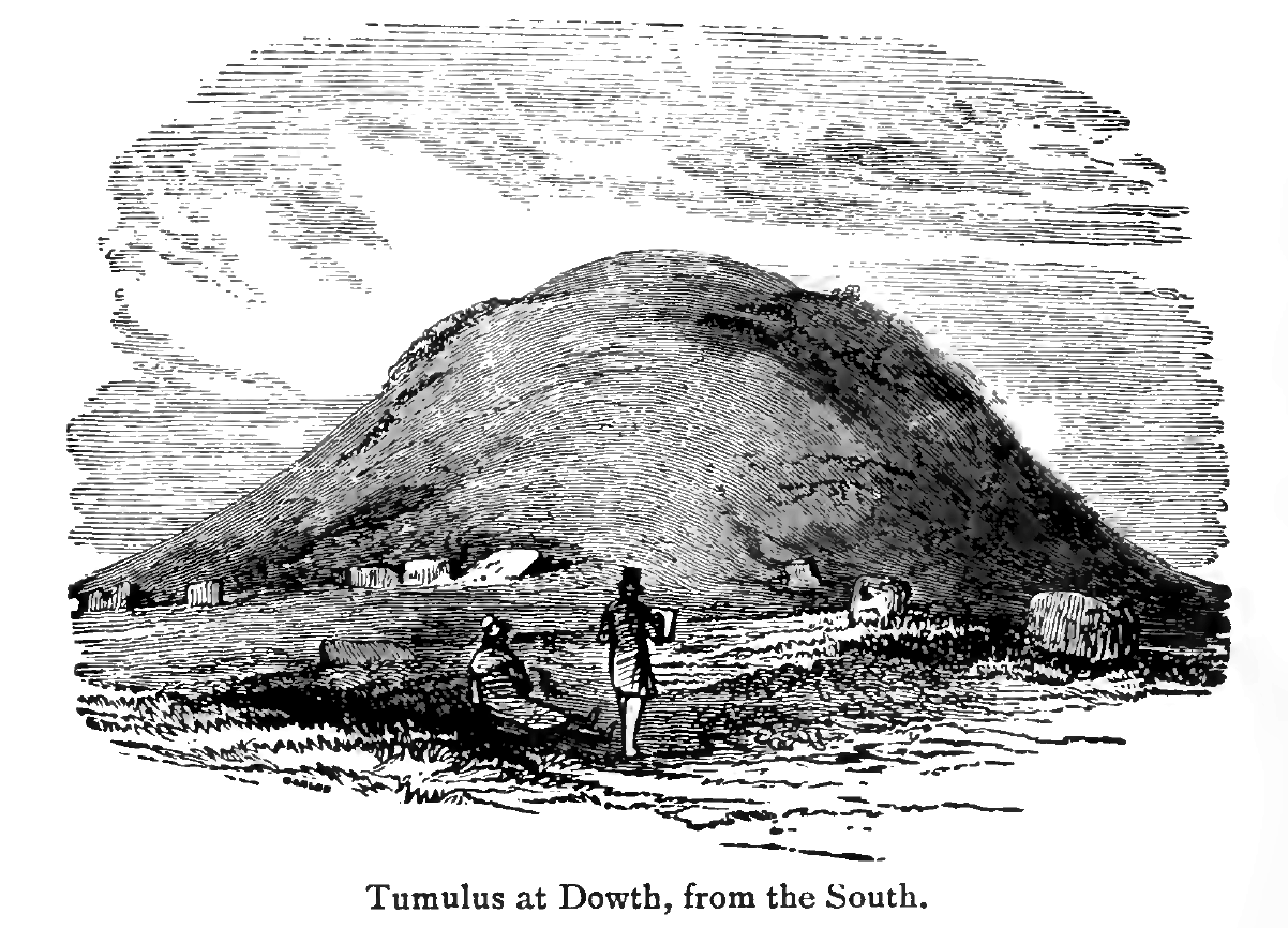 Sketch of the Dowth tumulus from the South.